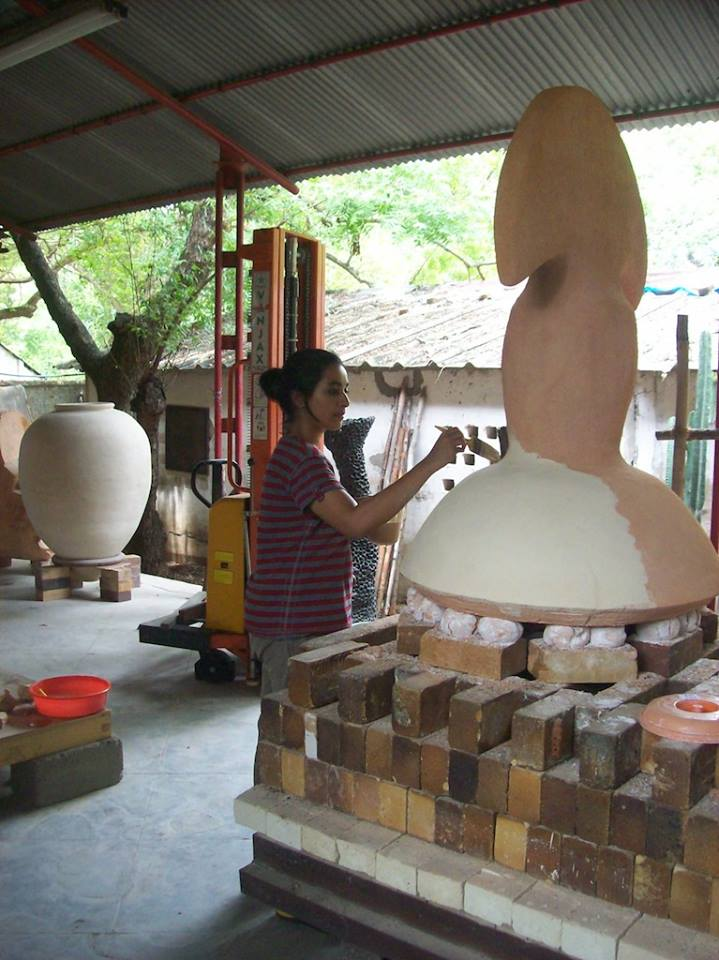 Ashwini Bhat glazing the Queen